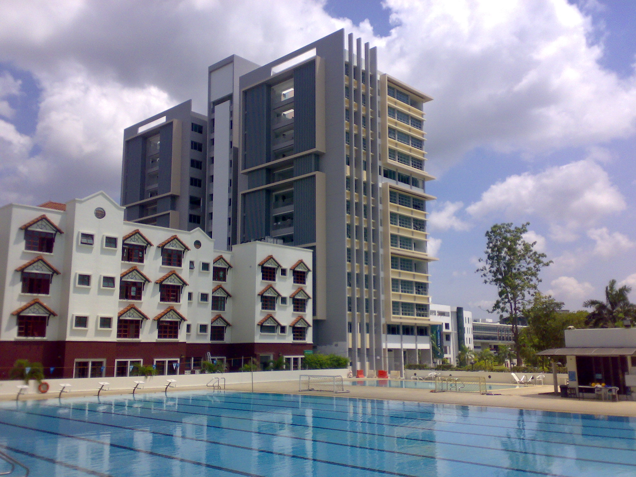 The Boarding Complex of Raffles Institution (Secondary), Singapore.